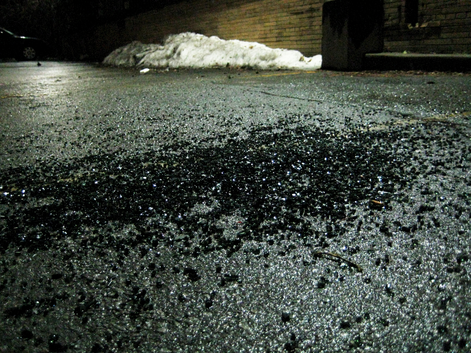 Shattered glass marks the spot where a parked vehicle was broken into, this type of theft is referred to as "theft without keys".